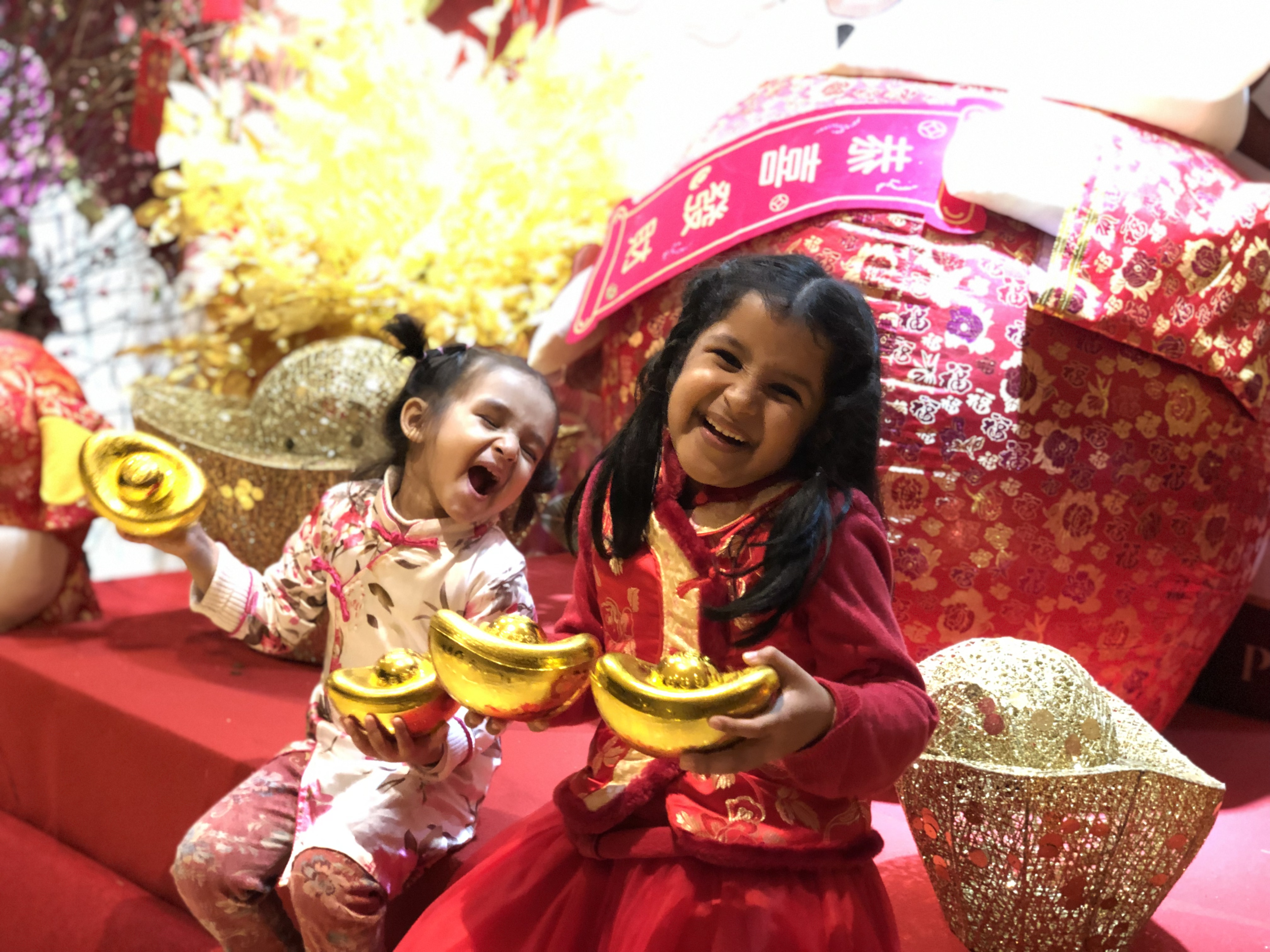 Indian kids celebrating Chinese New Year in Hong Kong. This photo has been taken in the country: China